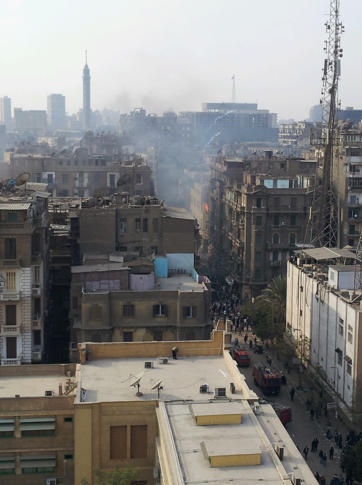 Building on fire on Mohamed Mahmoud St, on the corner of Falki st. Tear gas everywhere.